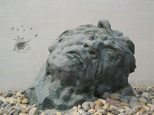 The Japanese massacred 300 000 civilians in 6 weeks (from Dec 13, 1937 to Jan, 1938). They still honour the heroes who did it, calling it an "incident."